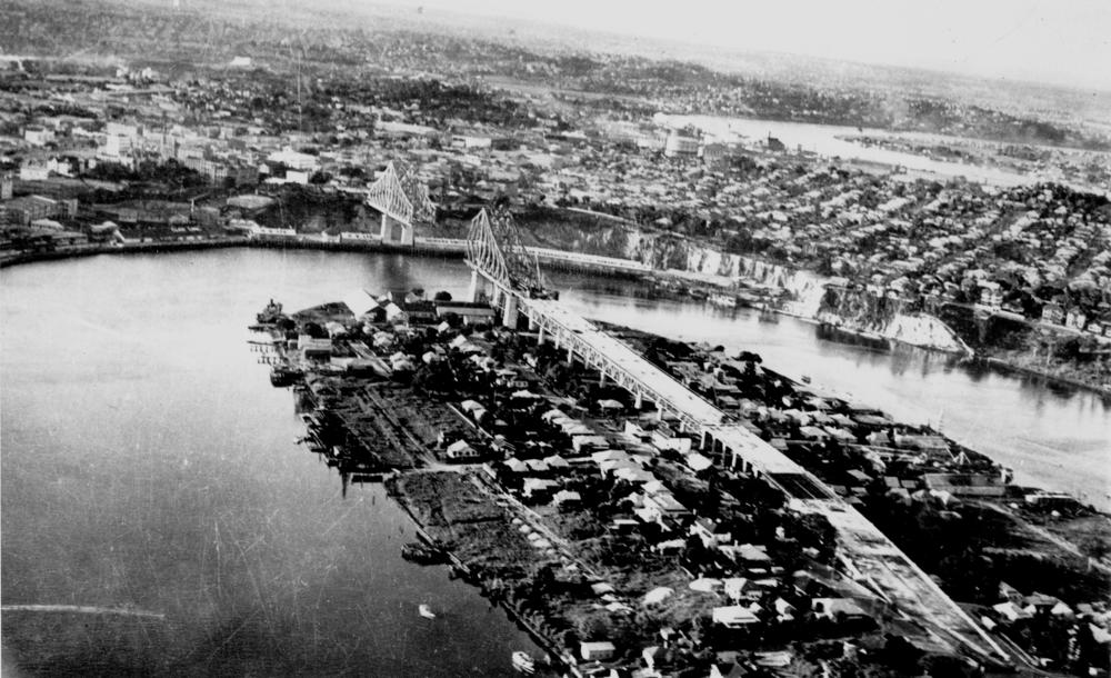 Brisbane River and Story Bridge, 1939. Aerial view of Kangaroo Point and the Brisbane River, including the incomplete Story Bridge under construction.